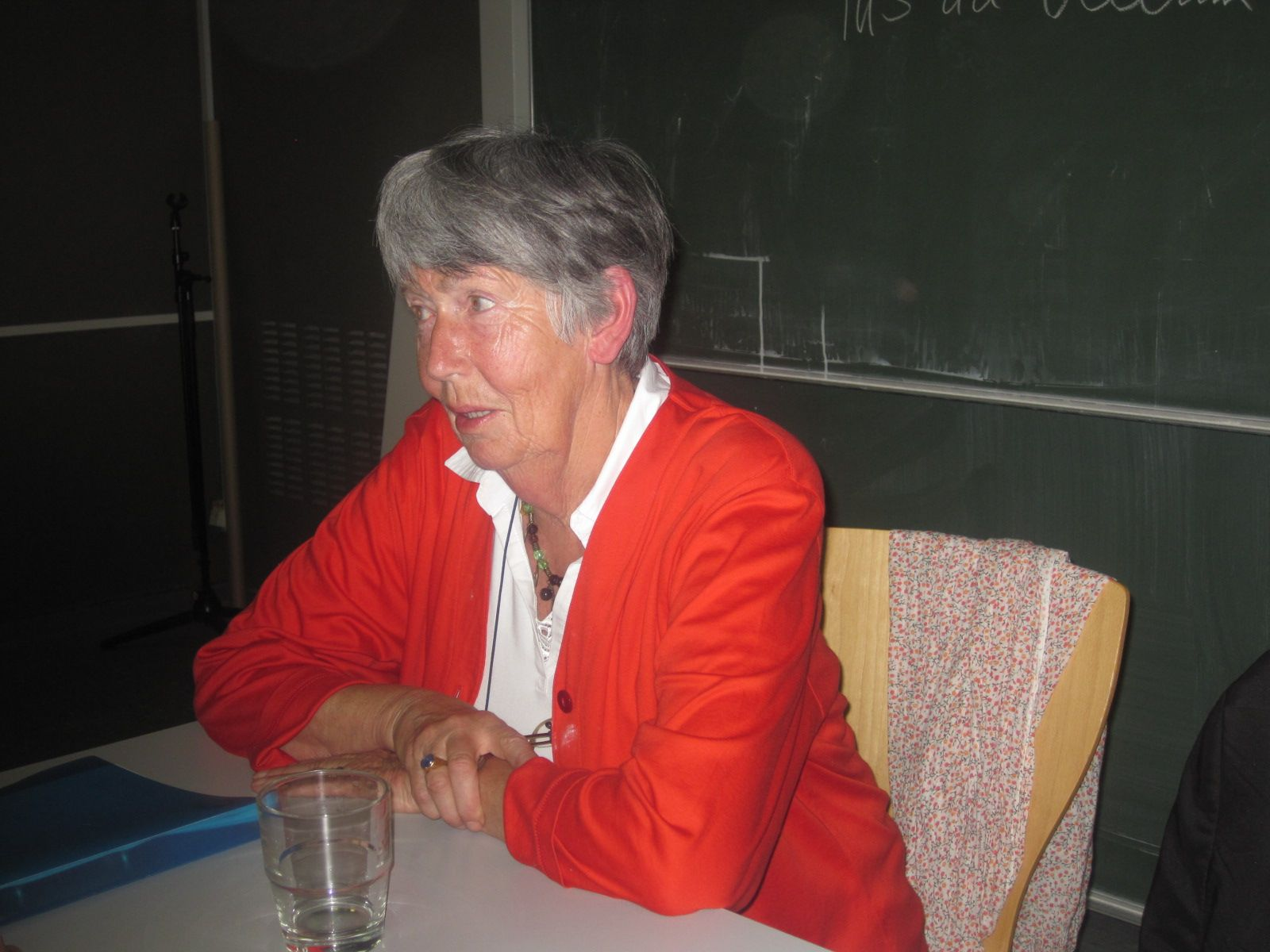 historian Helga Botermann